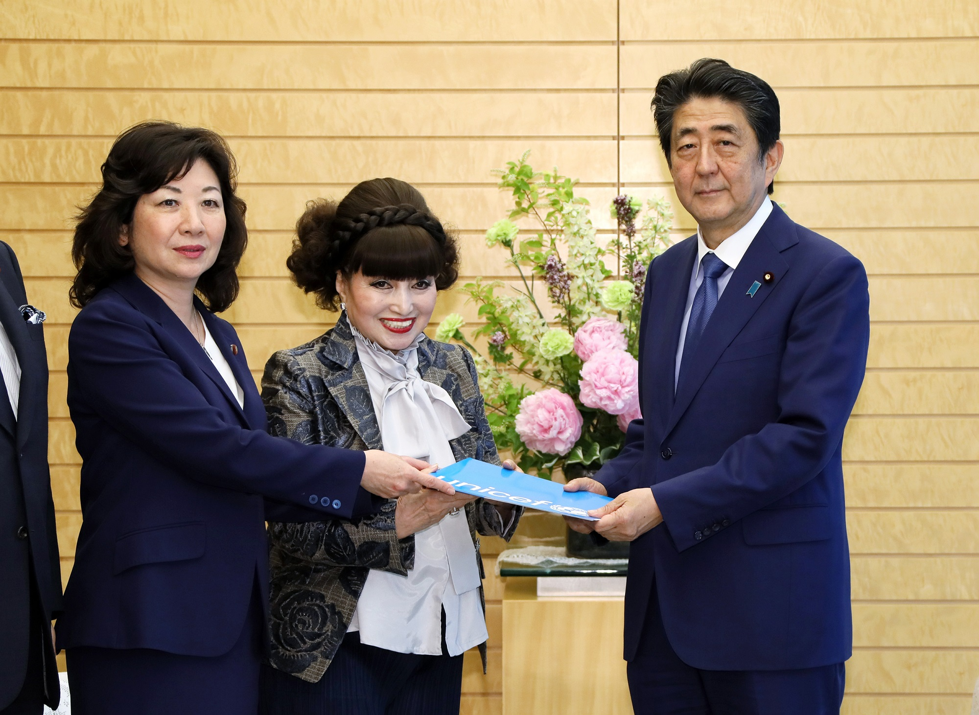 Prime Minister of Japan Shinzō Abe, Member of the House of Representatives Seiko Noda and actress Tetsuko Kuroyanagi.